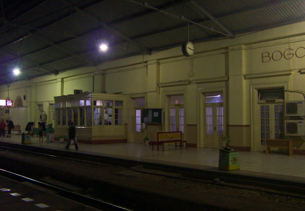 Bogor train station, West Java